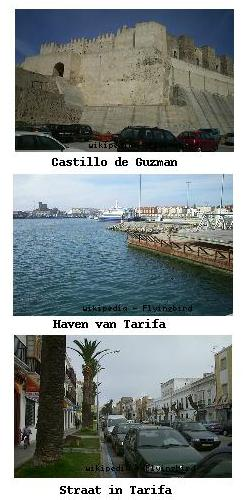 Montage of photos of Tarifa.